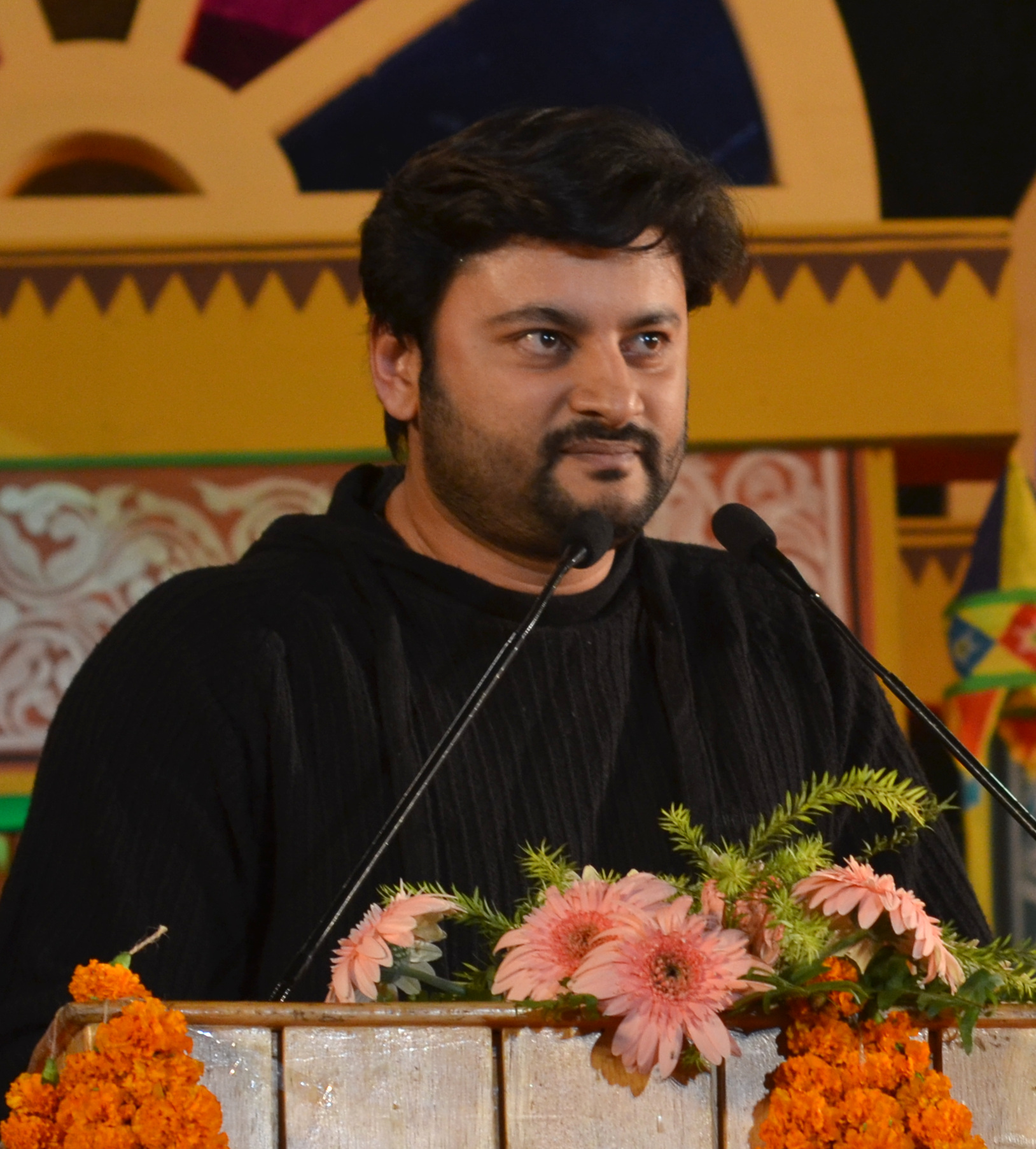 Odia film actor and current Biju Janata Dal Member of Rajya Sabha, Odisha Anubhav Mohanty during State Film Awards 2014 at Utkal Mandap, Bhubaneswar, Odisha.